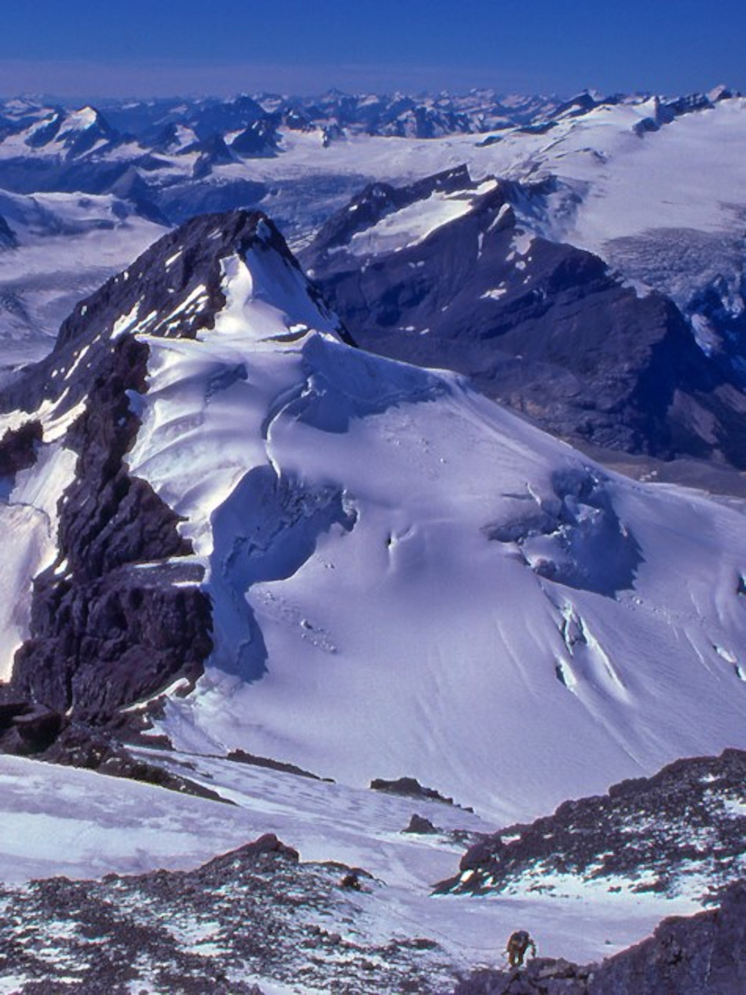 From a Mt. Forbes Buttress not far below the final summit ridge, 2 US Climbers (Michigan or Wisconsin, IIRC) are still ascending on the West Ridge (Normal) route as we descend, having had lunch on the summit. We had started later than them, but about 4:00 am, and had passed them at the bergschrund (we were using a running belay as opposed to their static). In fact, they ended up spending the night on the mountain near the rocks you see at the bottom of the face (their tent was at the bivy site at the toe of the North Glacier).